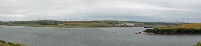 Pembroke River from Pennar Mouth It's rather a wet square!